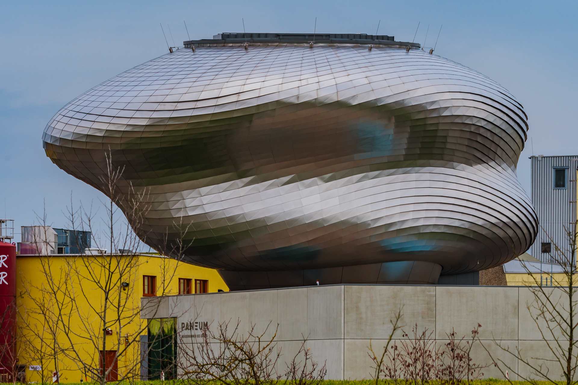 Paneum – the house of bread – is a museum and customer information center of the company Backaldrin in Asten / Upper Austria. It was designed by COOP HIMMELB(L)AU Wolf D. Prix & Partner ZT GmbH.